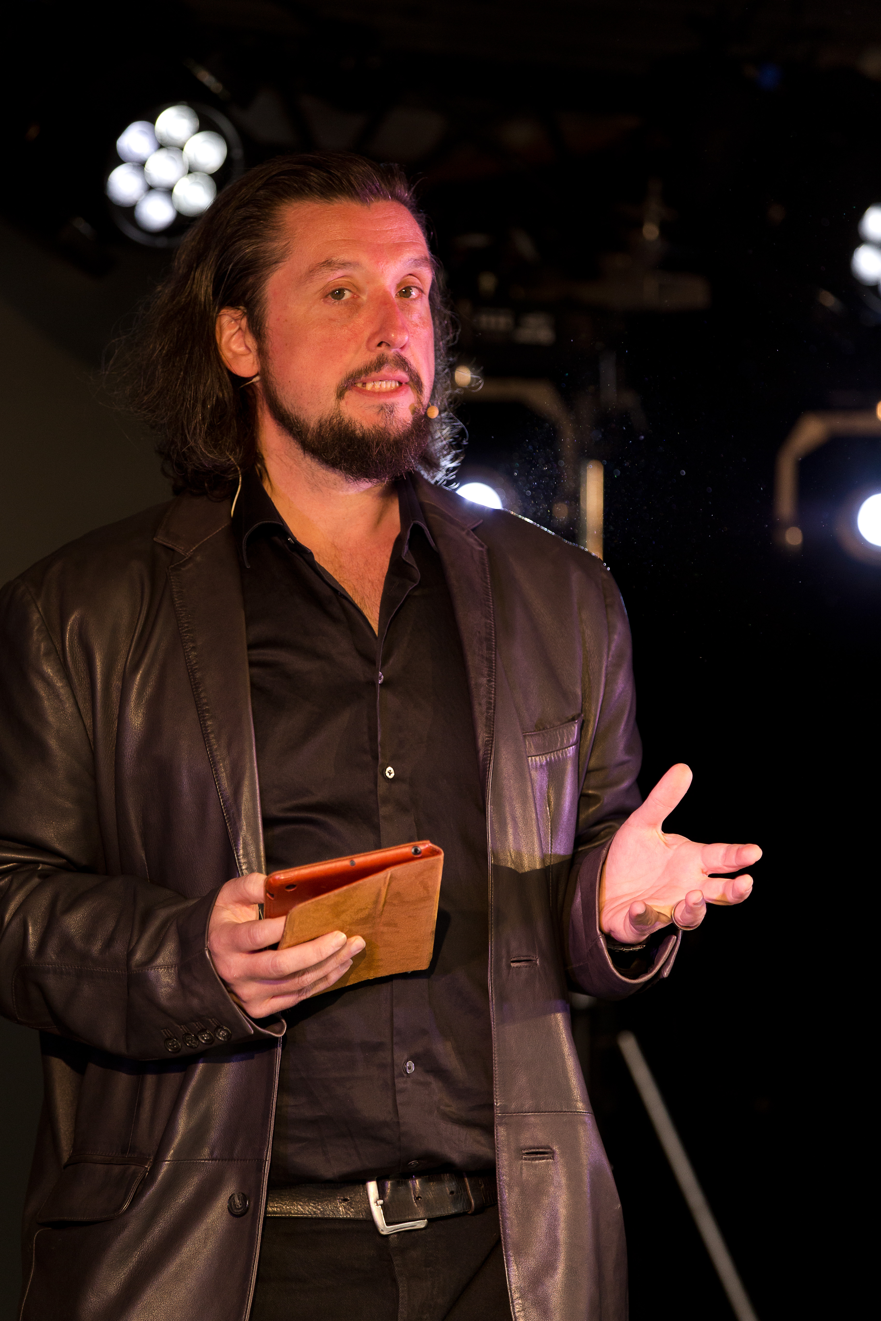 The German screenwriter and author Axel Hildebrand at the Nocturnal Culture Night 10 2015 in Deutzen/Germany.